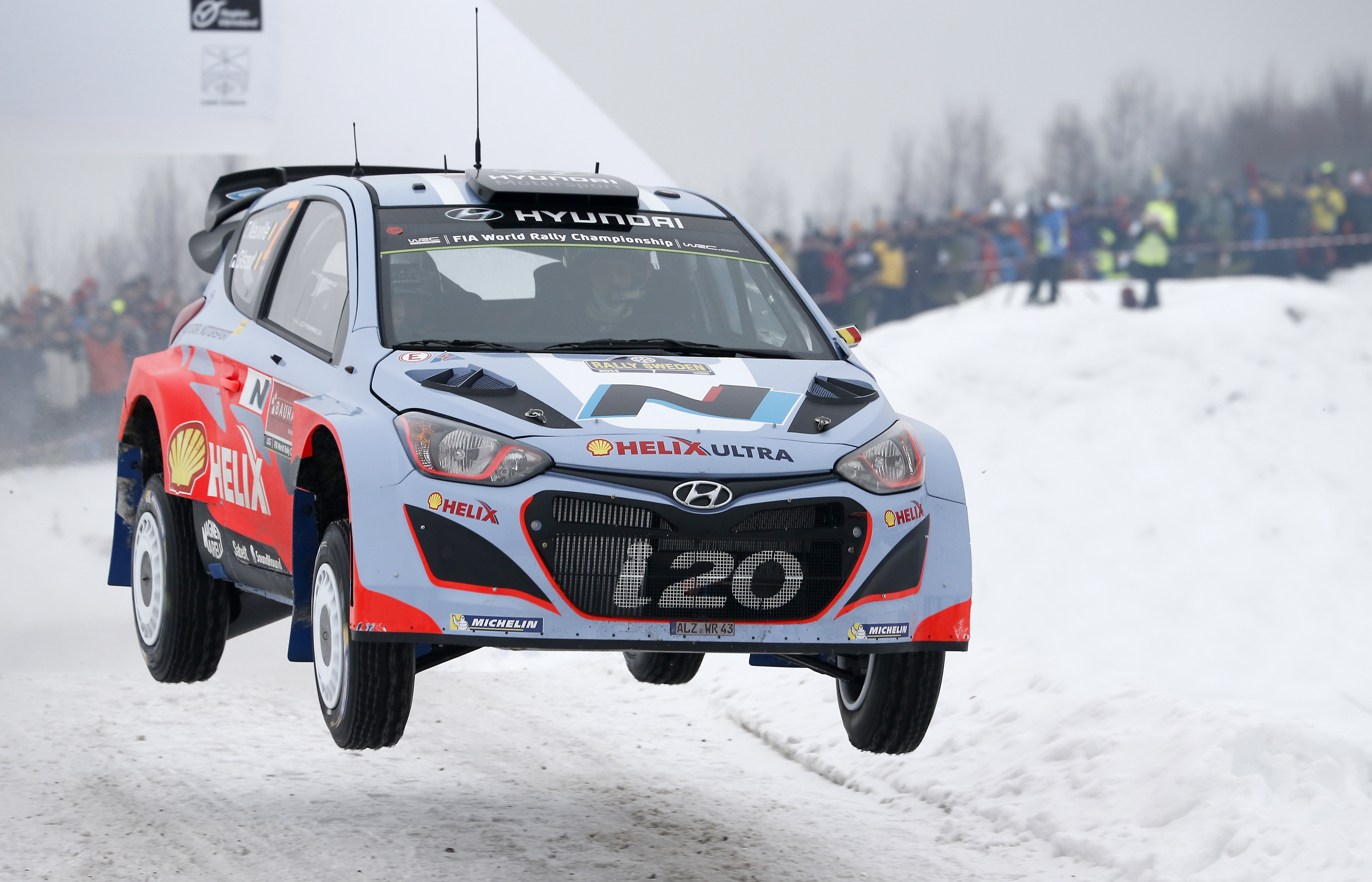 Thierry Neuville and co-driver Nicolas Gilsoul in their Hyundai i20 WRC at the 2014 Rally Sweden.